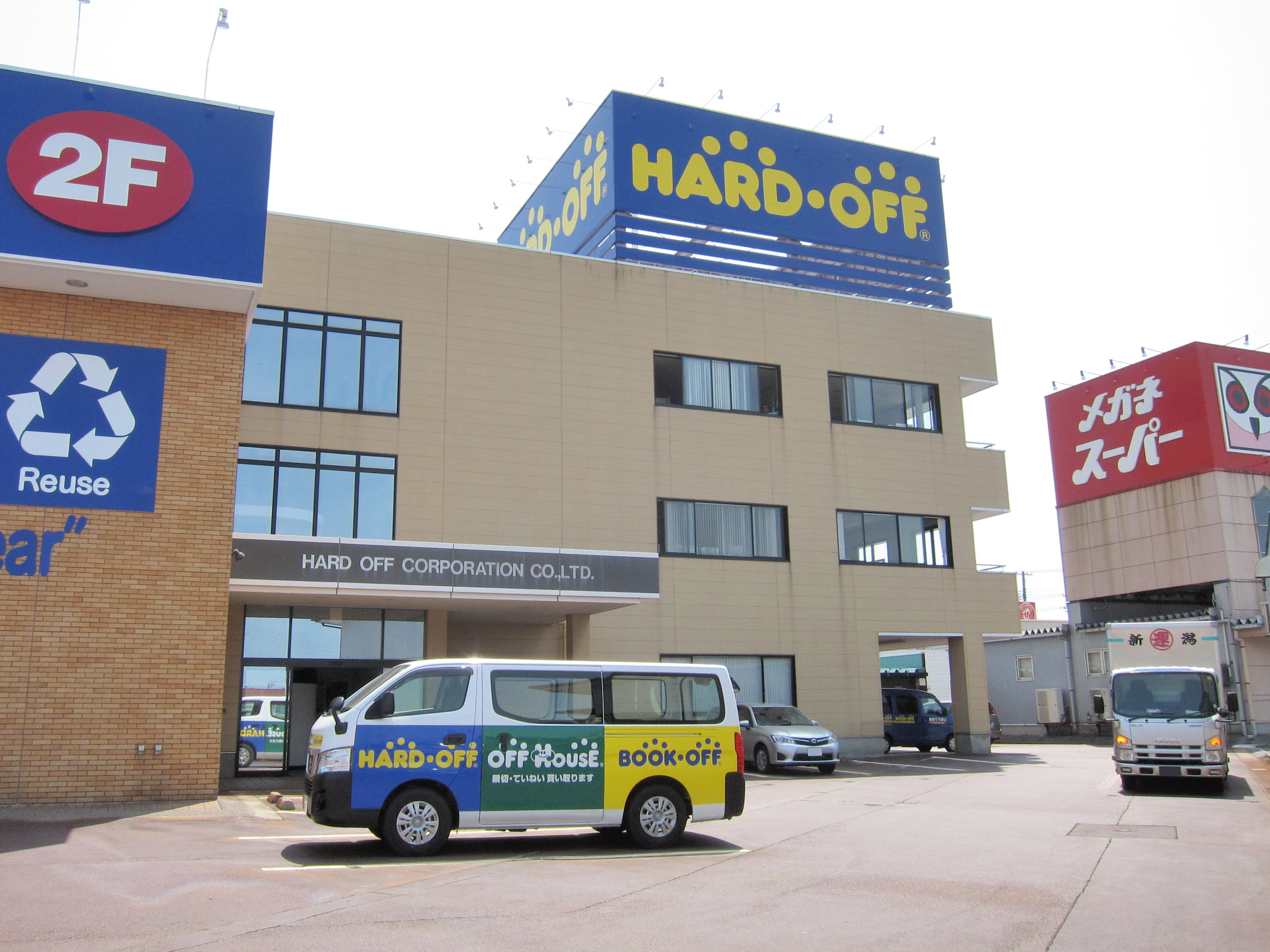 Photograph of HARD OFF CORPORATION Co, Ltd head office exterior. address 3-1-13 Shineicho, Shibata City, Niigata Prefecture, Japan photo date and time 10:29 May 30, 2014